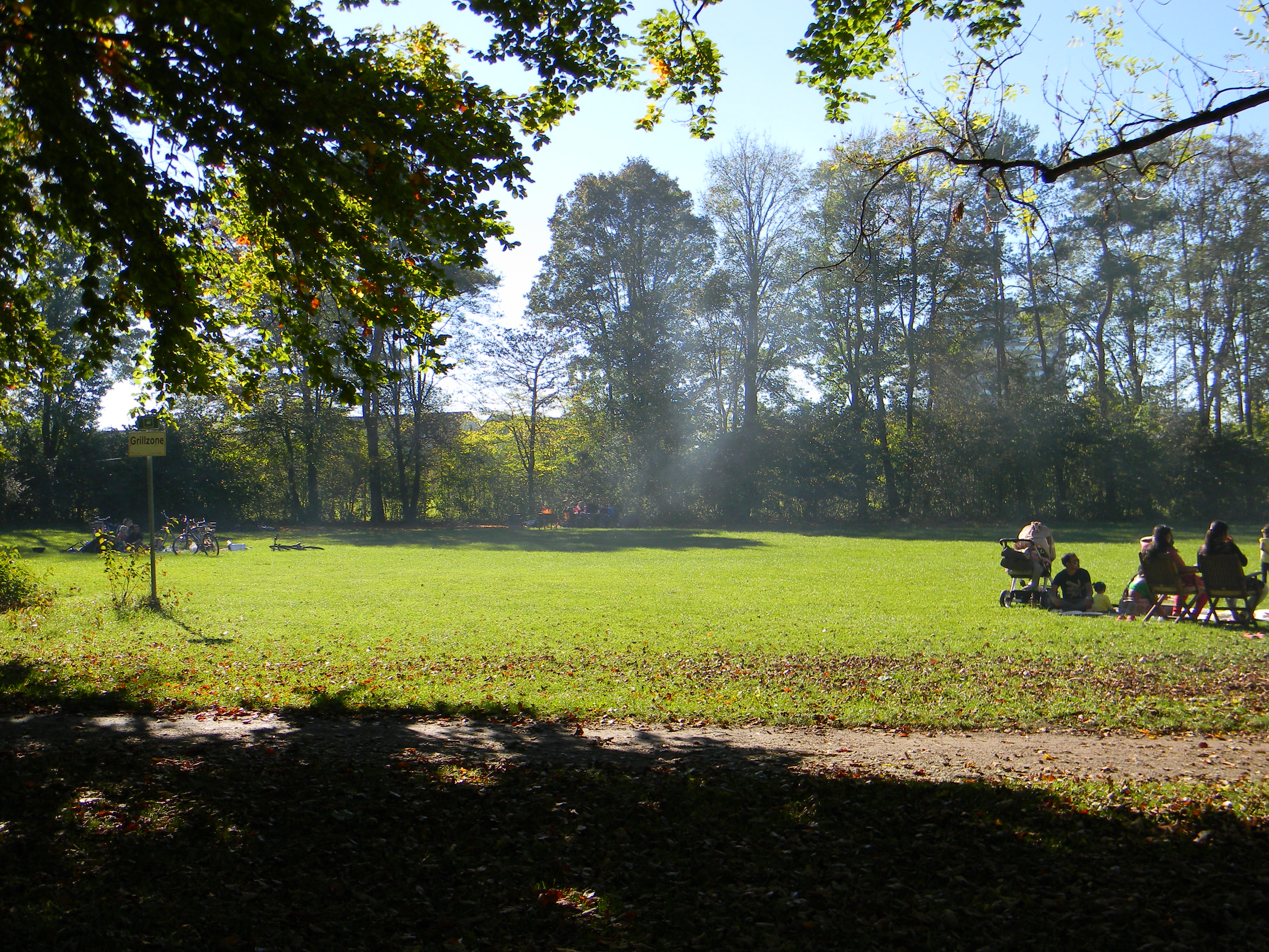 Wiese in der Siebentischanlage mit Grillzone